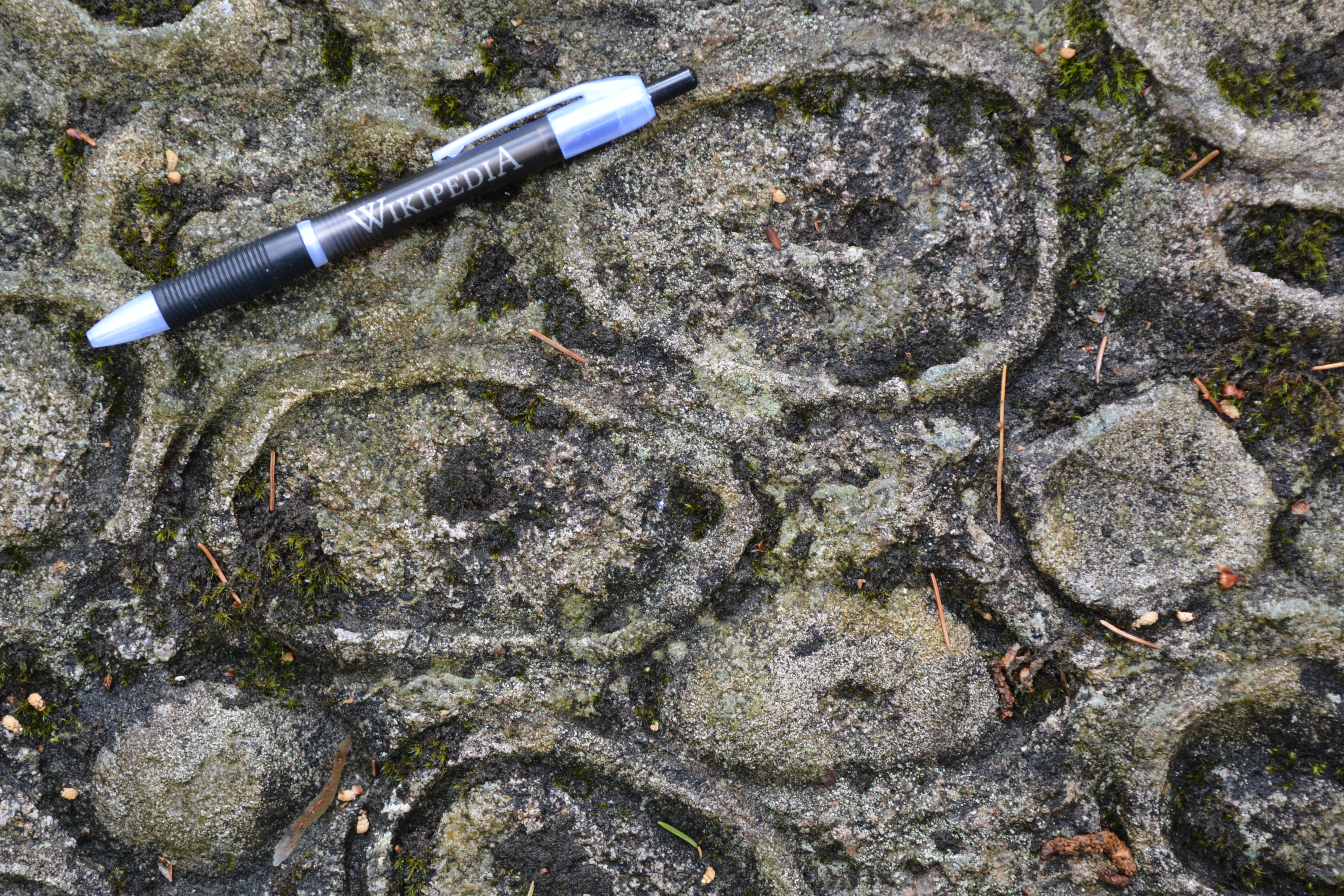 Orbicular granite, Slättemossa Klotgranit, Slättemossa